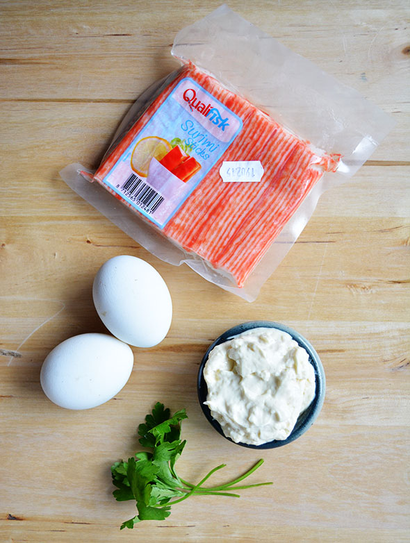 I made this photo for a step by step recipe blog post on how to make surimi salad. If you use it, please link to the original post